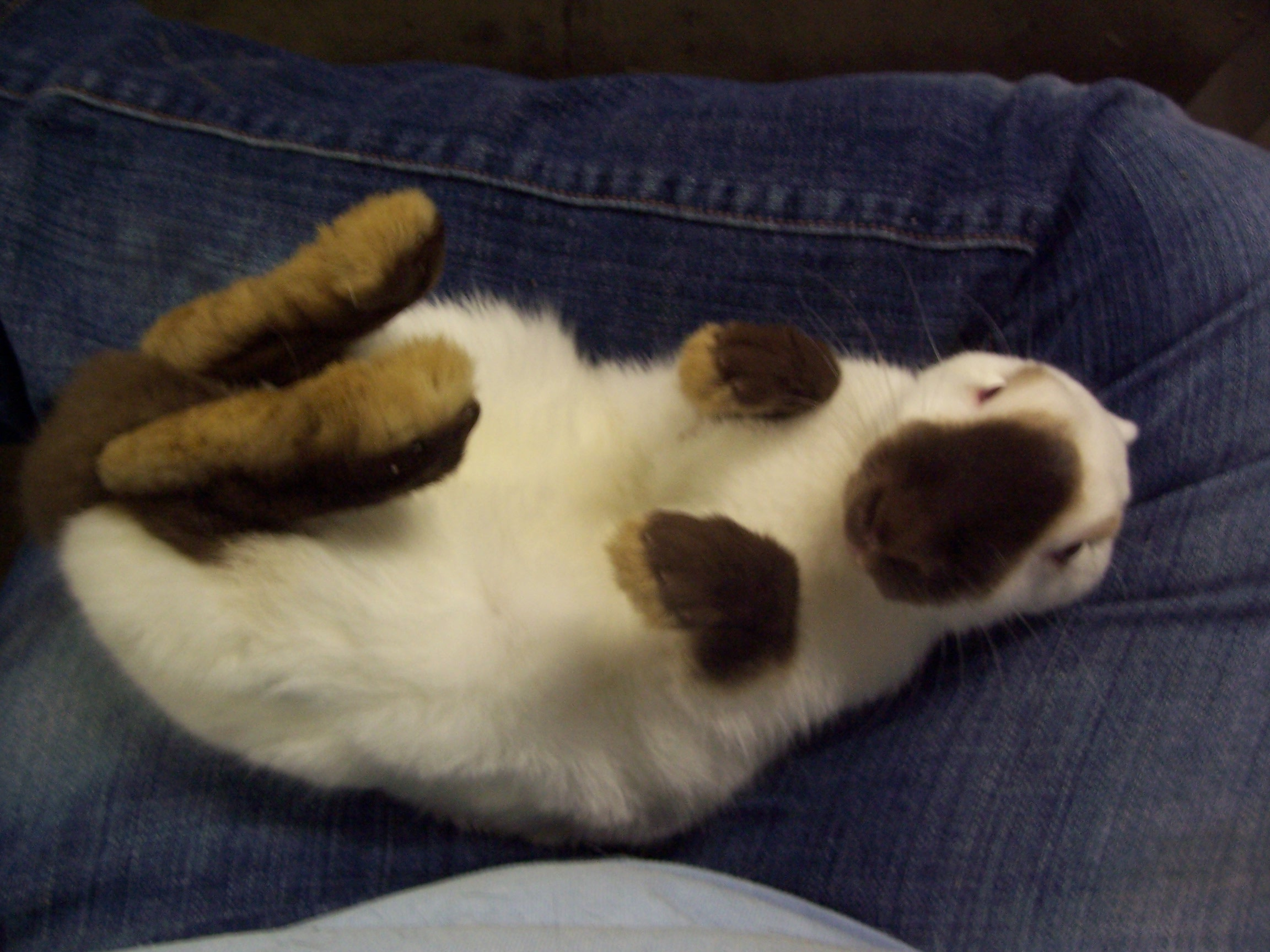 Himalayans are know for being especially laid back, which makes them a great choice for low-maintenance pets. This rabbit relaxes on his owner's lap before a rabbit show. Photo by Liberty Acres Rabbitry.